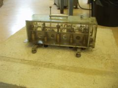 standardized tapping machine for impact sound measurements